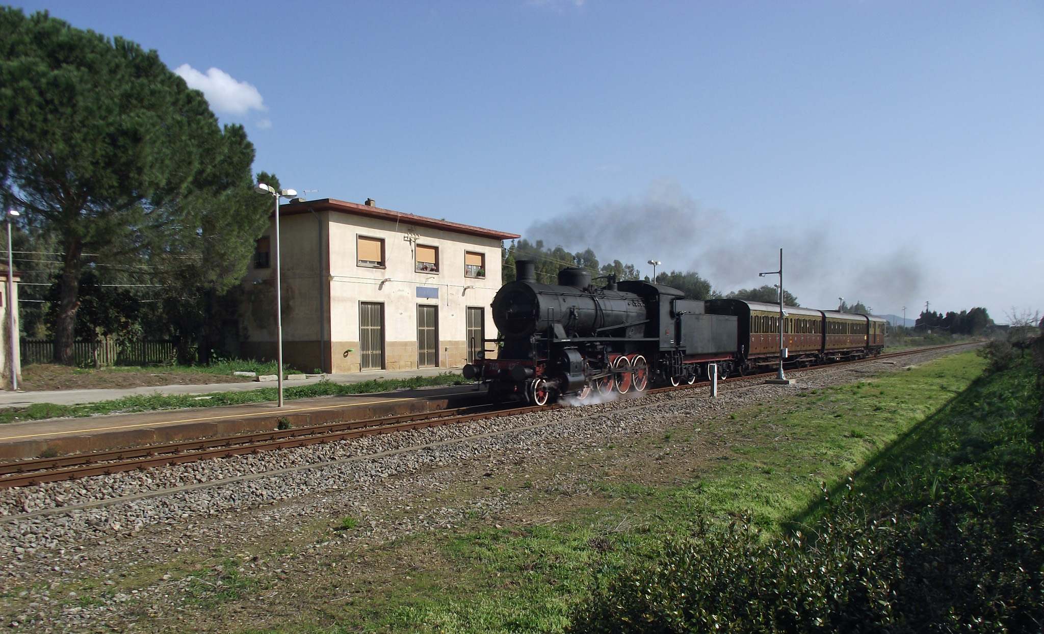 Historical train composed by steam locomotive FS group 740 number 423 and "Centoporte" coaches, passing in the halt of Cixerri, in Carbonia, Sardinia, Italy